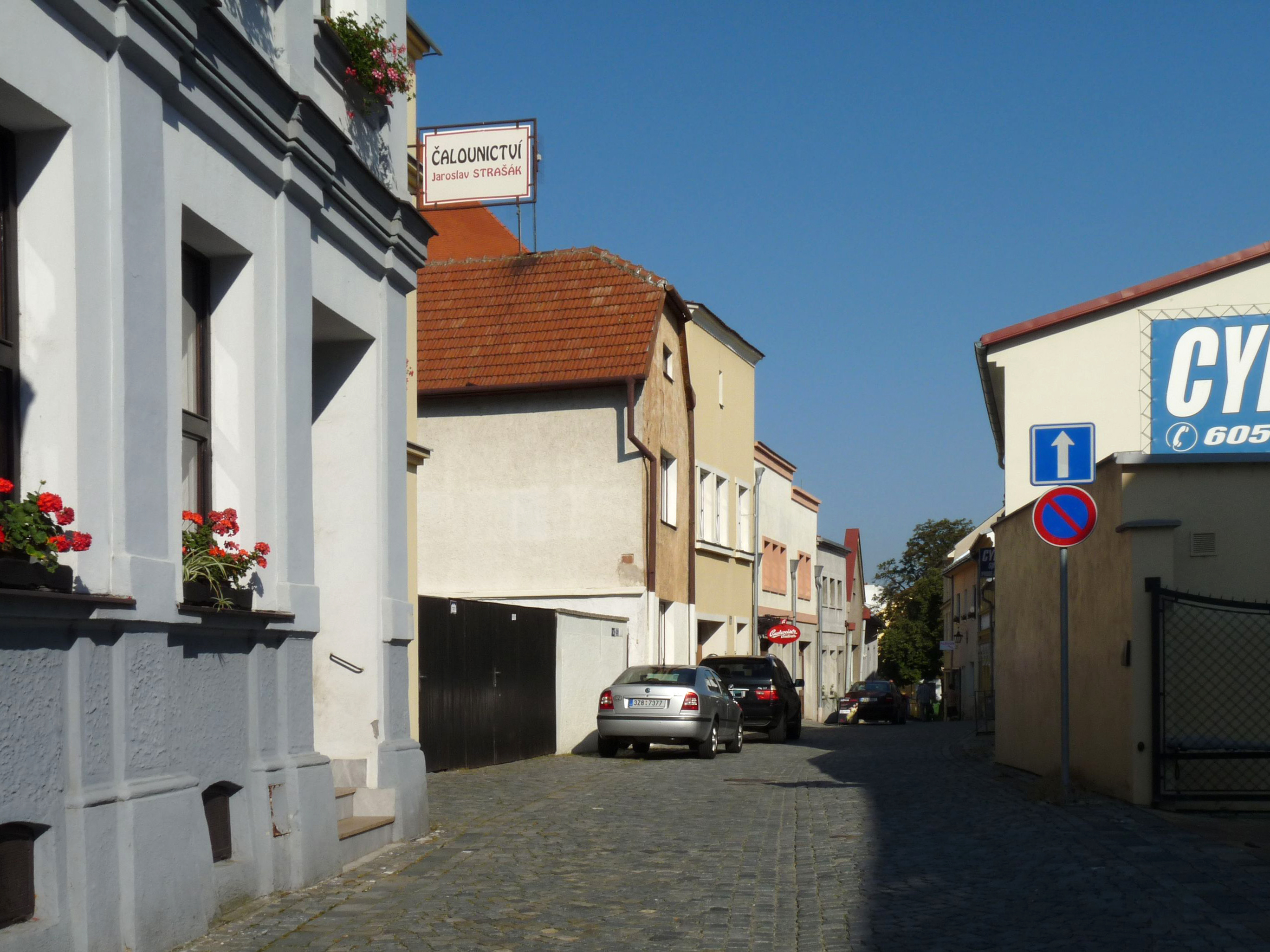 Tylova Street (former Jewish St) in the town of Kroměříž, Zlín Region, Czech Republic.